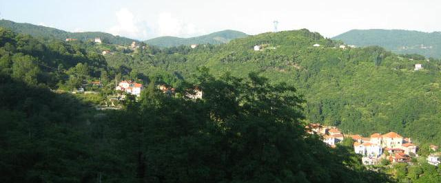 Panoramic view of Mignanego municipality, in the valley between the hamlets of Costagiutta and Fumeri